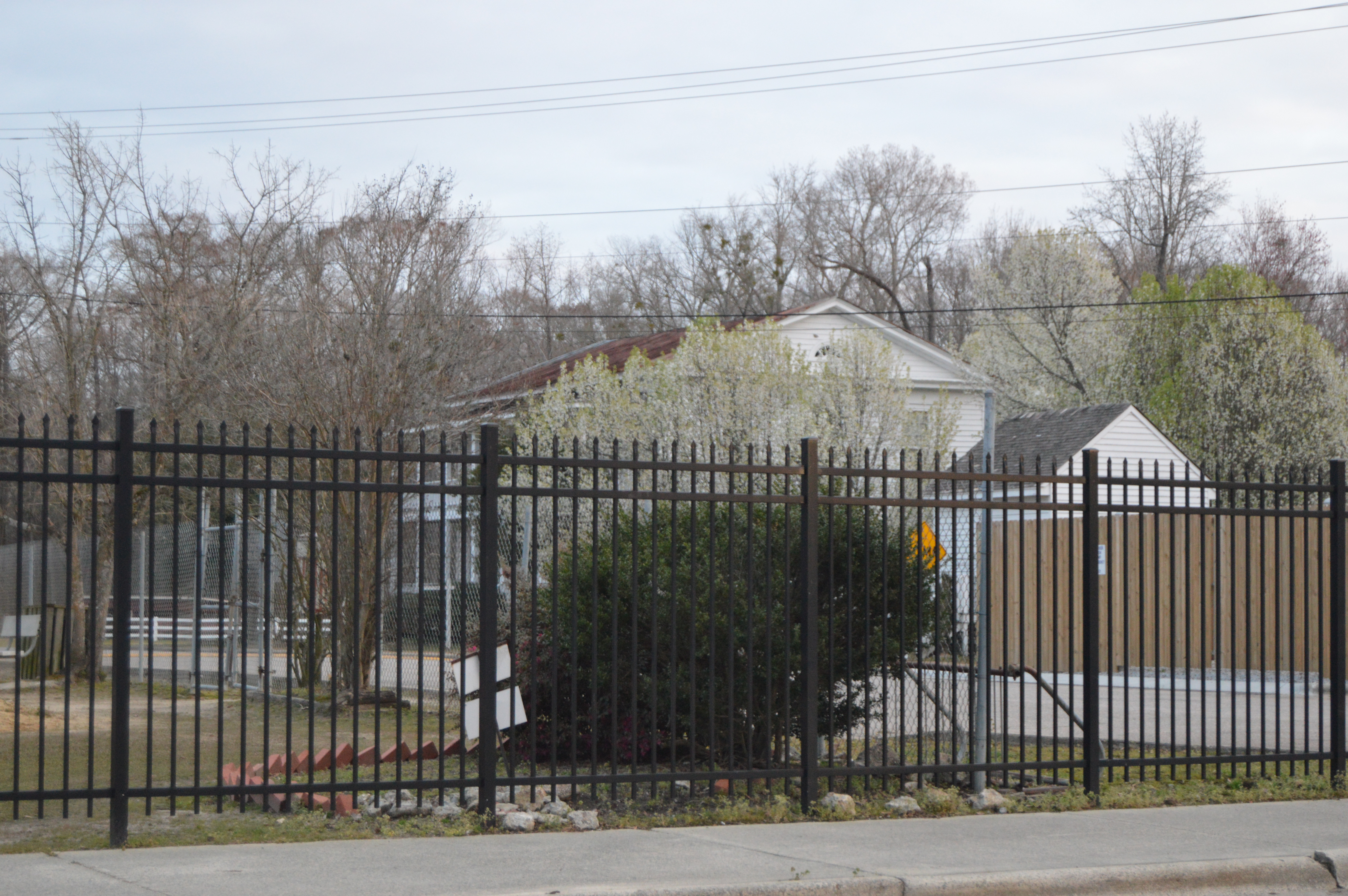 Through-the-fence view of the Freeman Hotel, located on York Street north of Granville Street in Windsor, North Carolina, United States.